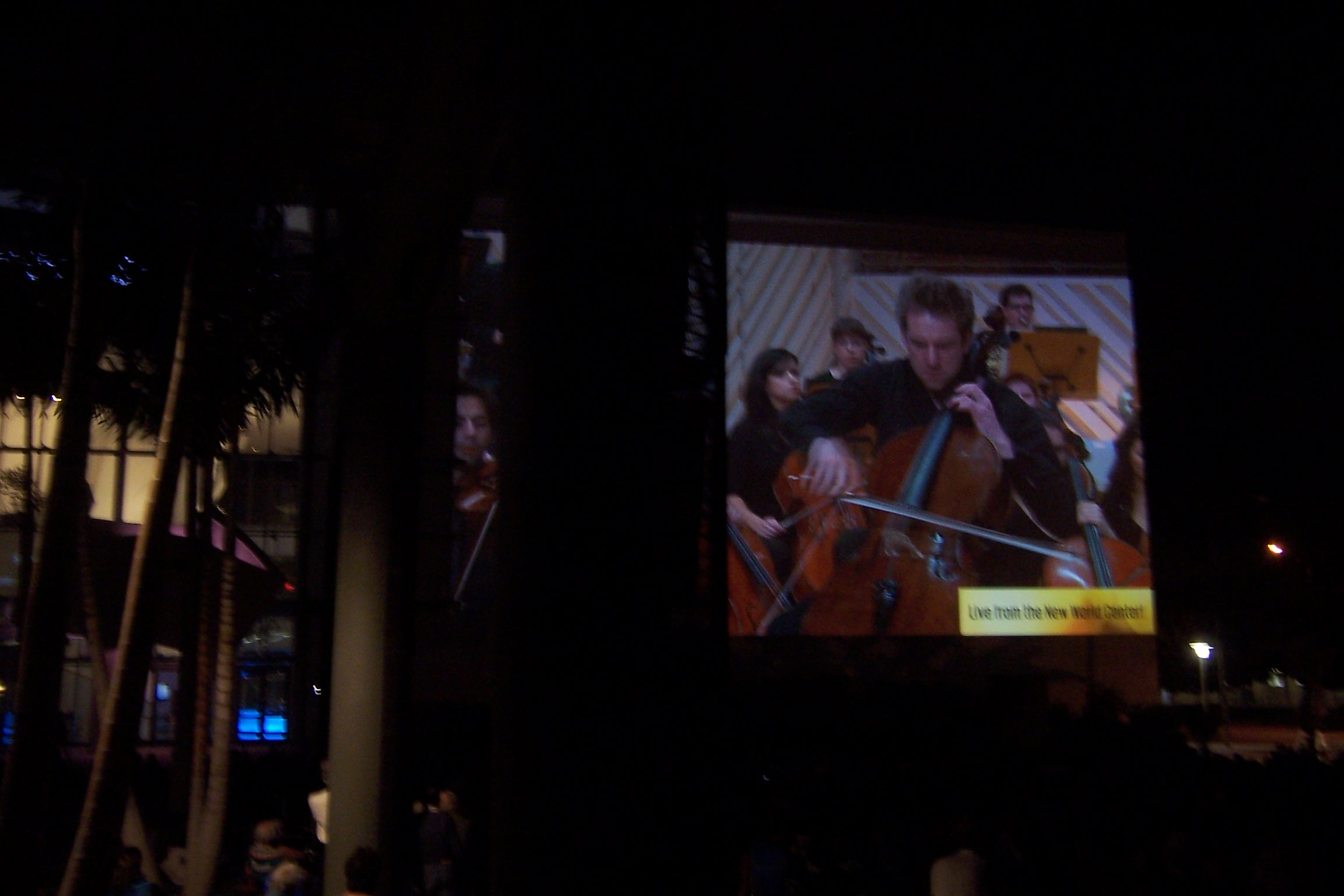 Audience members watching an outside "wallcast" performance at the New World Center in Miami Beach, Florida. The performance is of Dvorak's Cello Concerto, with soloist Johannes Moser (pictured) playing with the New World Symphony as conducted by Manfred Honeck.